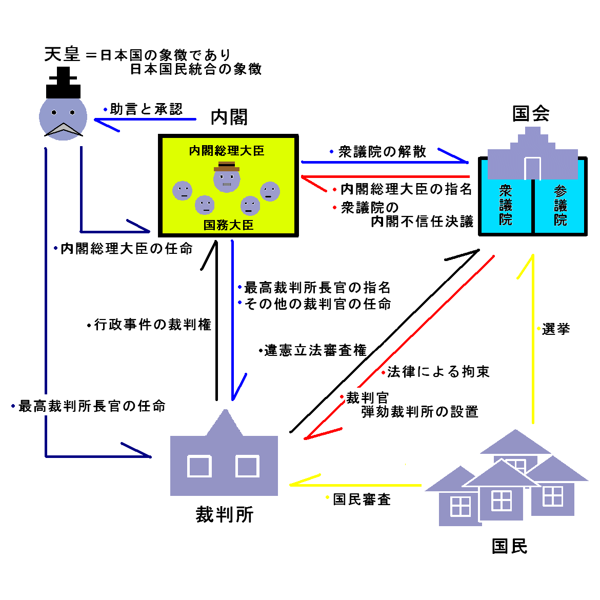 A rule organization chart under the Constitution of Japan.